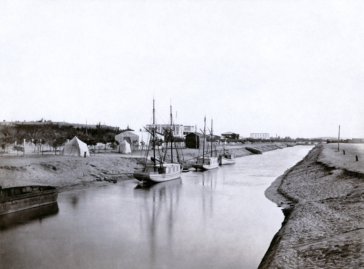 "The freshwater canal at Ismailia" albumen print